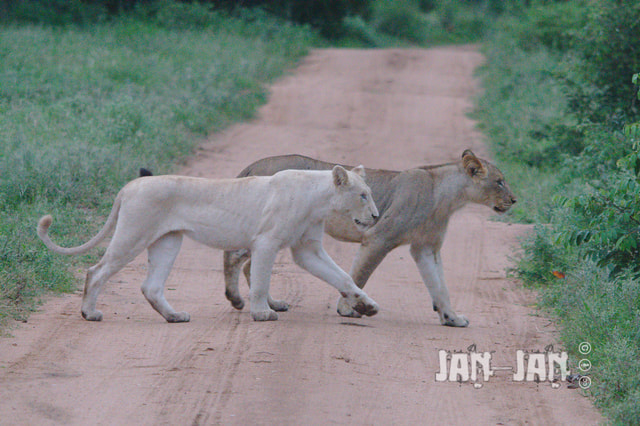 500px provided description: White Lion Mom [#Lion ,#Ingwelala]